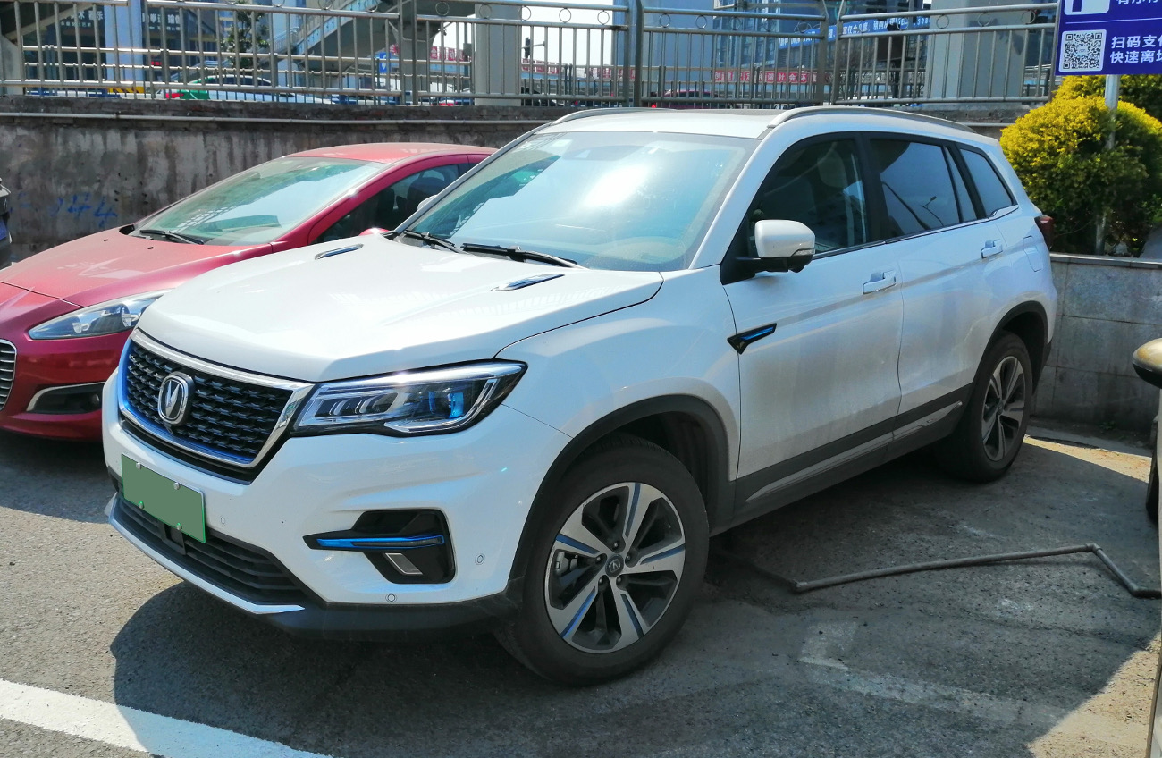 Chang'an CS75 PHEV photographed in Chongqing, China.